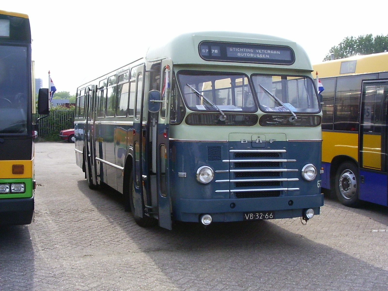 Zuidooster vintage bus 6778 dating from 1962. Den Oudsten bus (reg. VB-32-66) with DAF TB102 chassis.